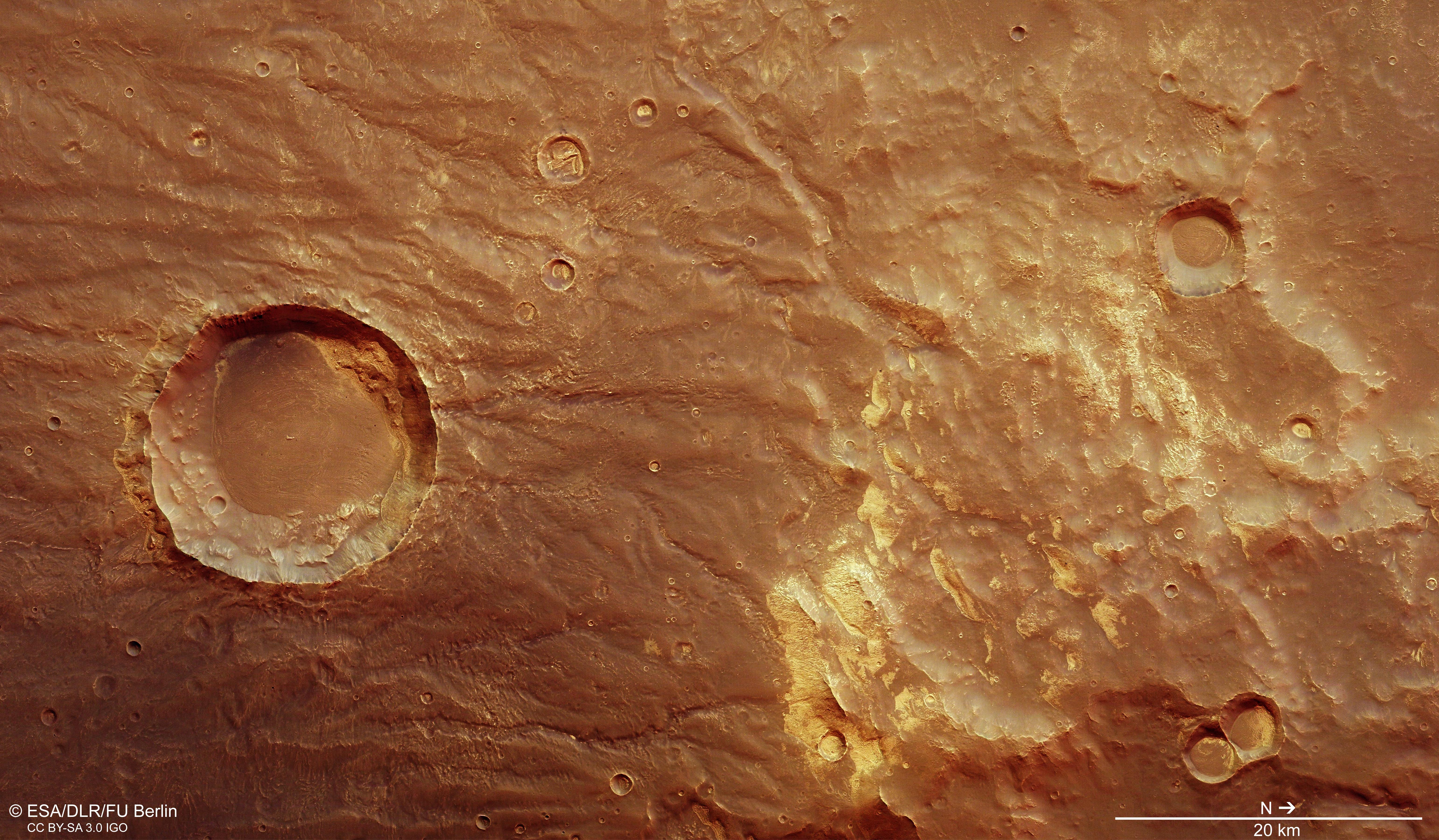 Colour view of the Thaumasia mountain range and Coracis Fossae in the southern hemisphere of Mars. This region was imaged on 9 April 2017 during Mars Express orbit 16807. The ground resolution is about 13 m/pixel and the images are centred on 281ºE/31ºS. North is right in this orientation. The colour image was created using data from the nadir channel, the field of view which is aligned perpendicular to the surface of Mars, and the camera’s colour channels.